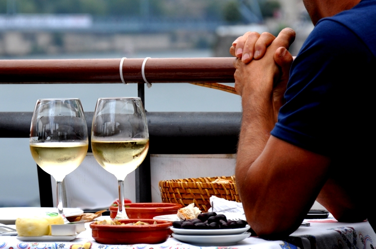 Table - Lunching Wine